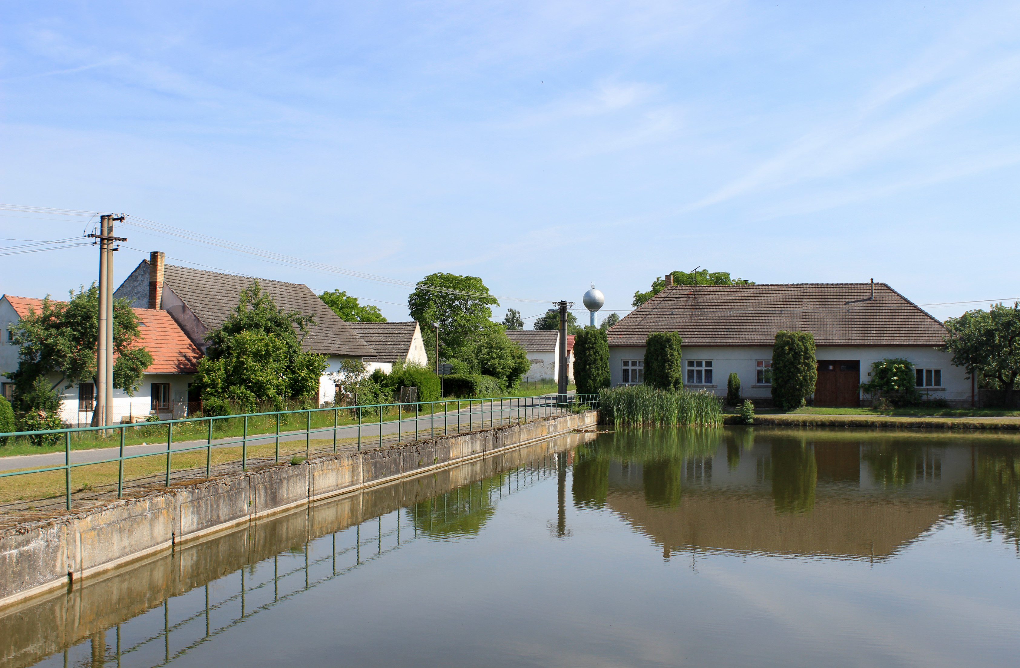 East pond in Plavsko, Czech Republic.